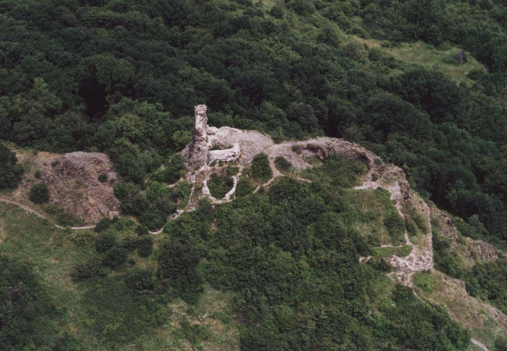 Castle - Szanda - Hungary - Europe